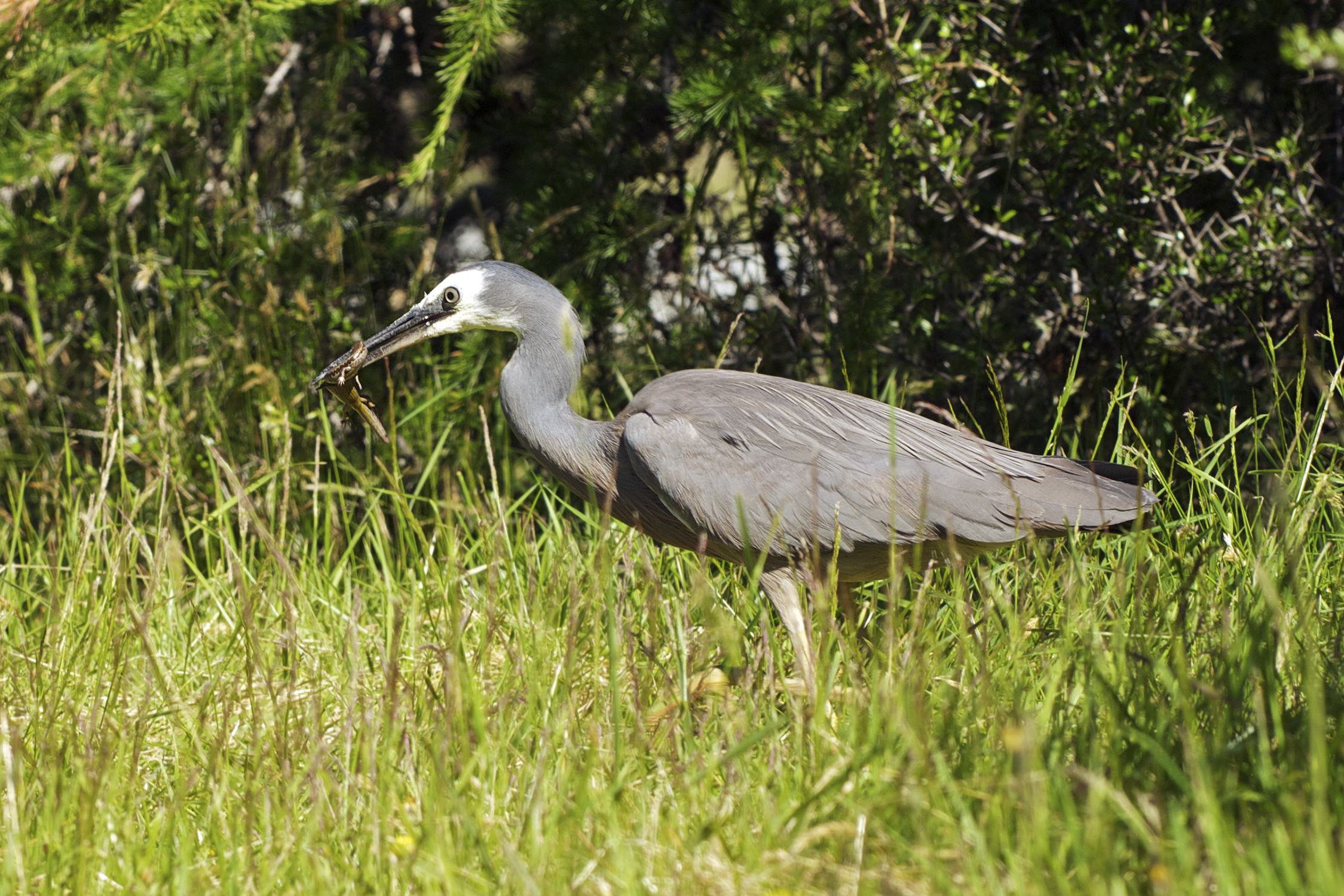 White-faced Heron (Egretta novaehollandiae) with prey, Mount Cook National Park, New Zealand